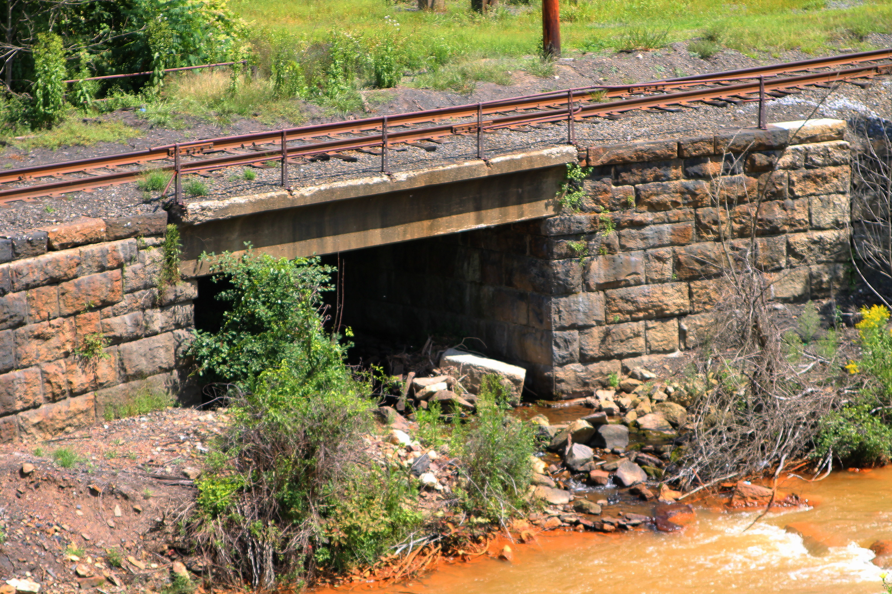 Mouth of Trout Run in Tharptown